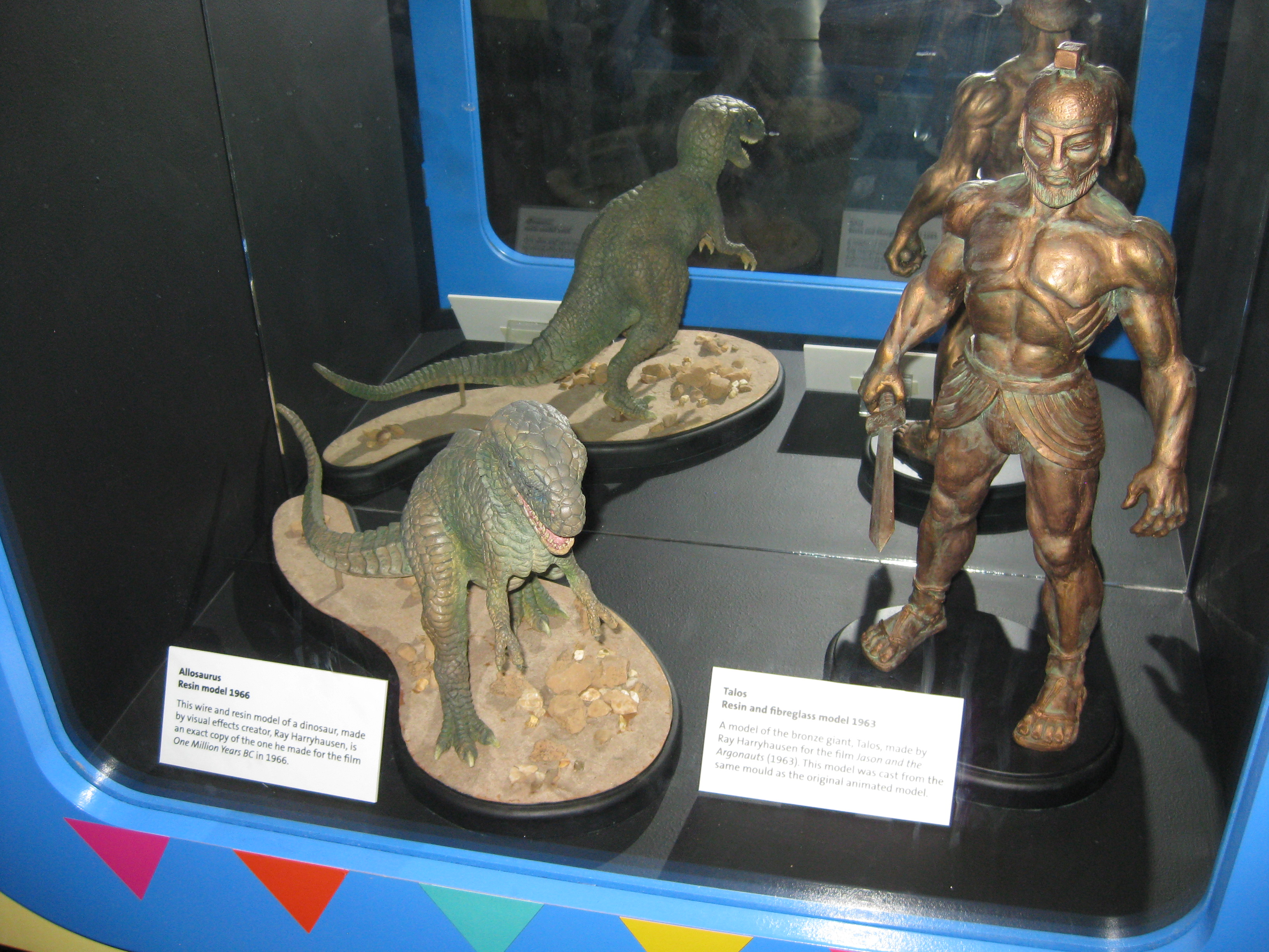 Two models from Ray Harryhausen at the National Media Museum, Bradford. Left is Allosaurus, right is Talos, the bronze giant. These are permanent models from the original moulds.